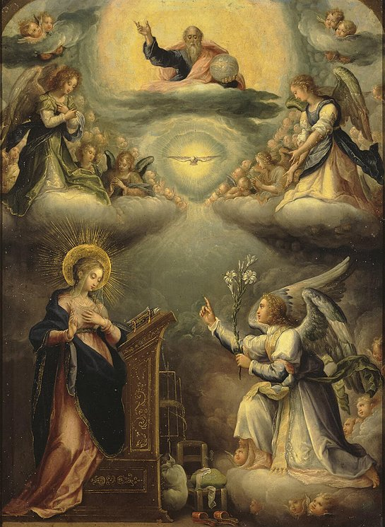 The Annunciation